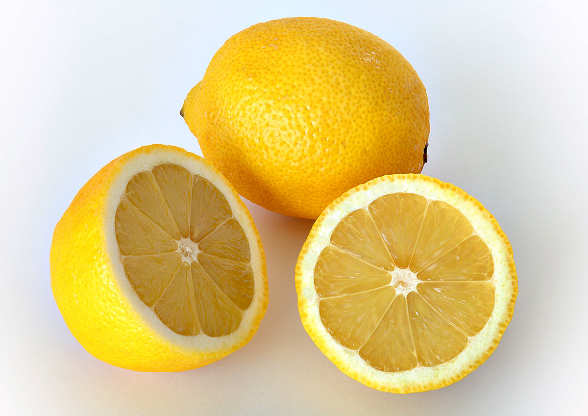 This image shows a whole and a cut lemon. It is an edit of Image:Lemon.jpg to reduce blown highlights and slightly darken image.